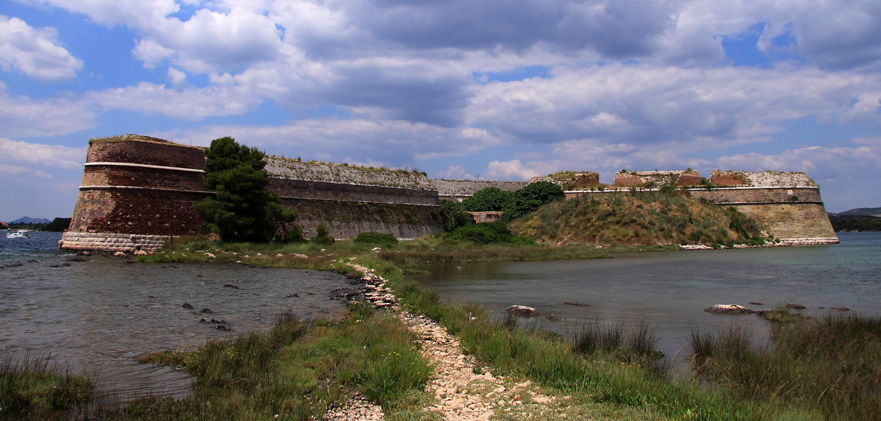 St. Nicholas Fortress